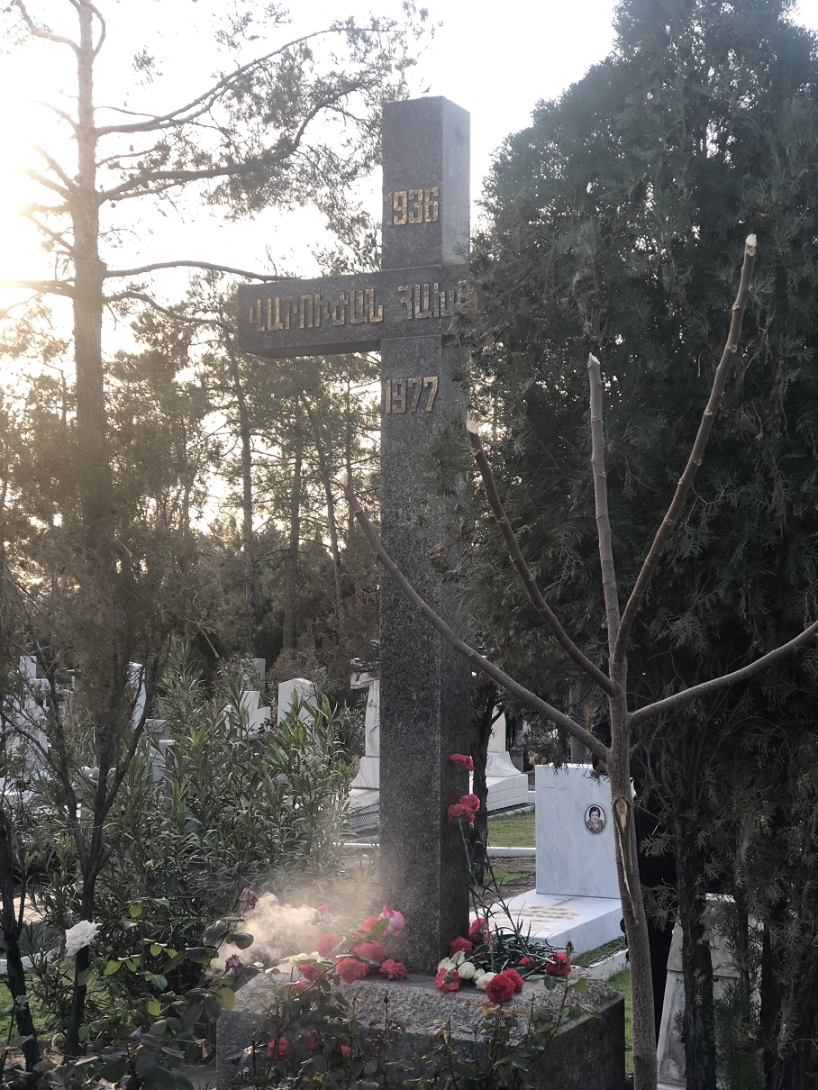 Burastan Cemetery